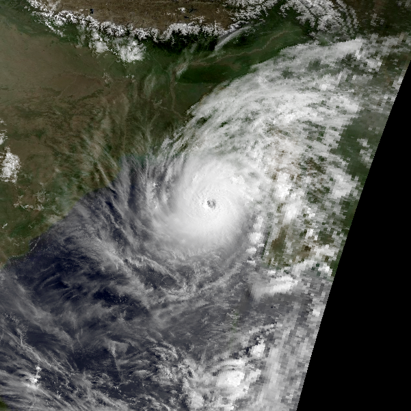 Image of Cyclone BOB 01 of the 1994 North Indian cyclone season on May 2, 1994.